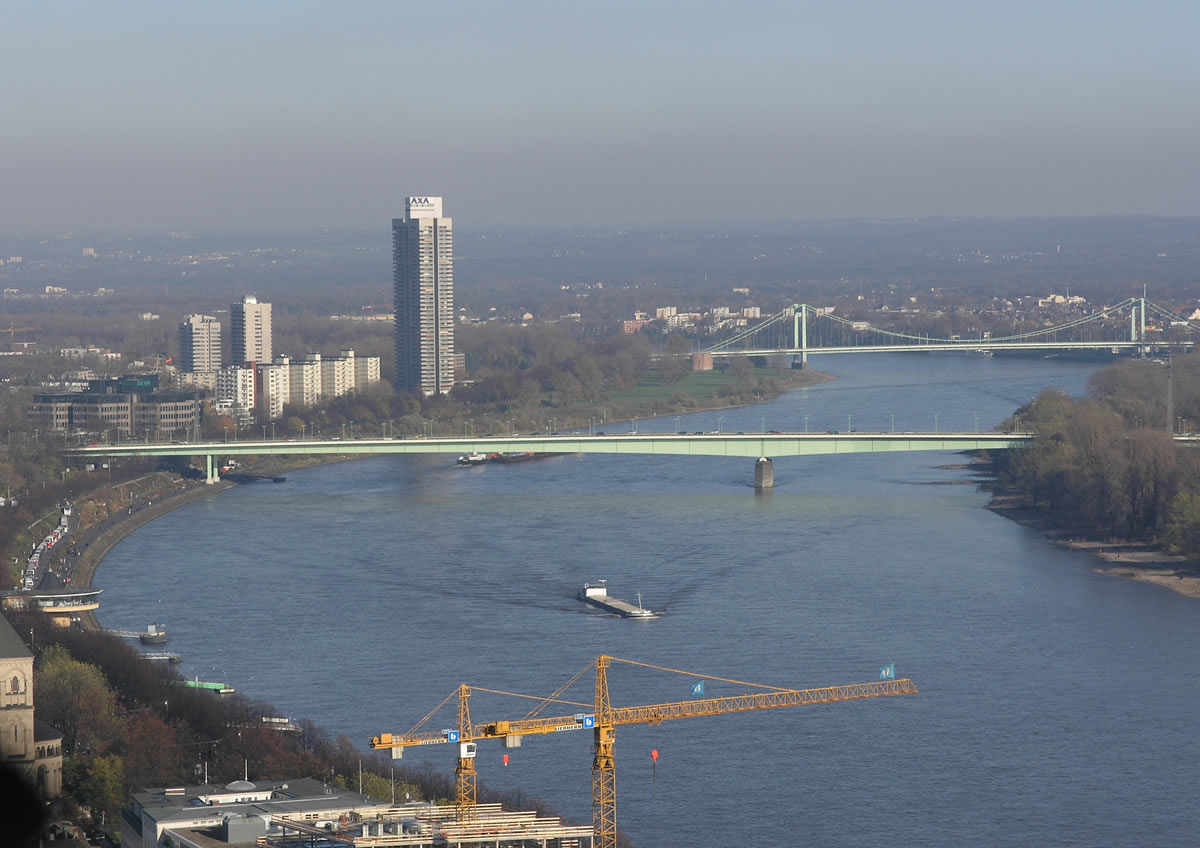 The Zoobrücke (Zoo bridge) over the Rhine in Cologne (Germany). Northbound view from the visitors platform of Cologne Cathedral. Behind the bridge the Colonia-Hochhaus (left) and the Cologne Mulheim Bridge are located.